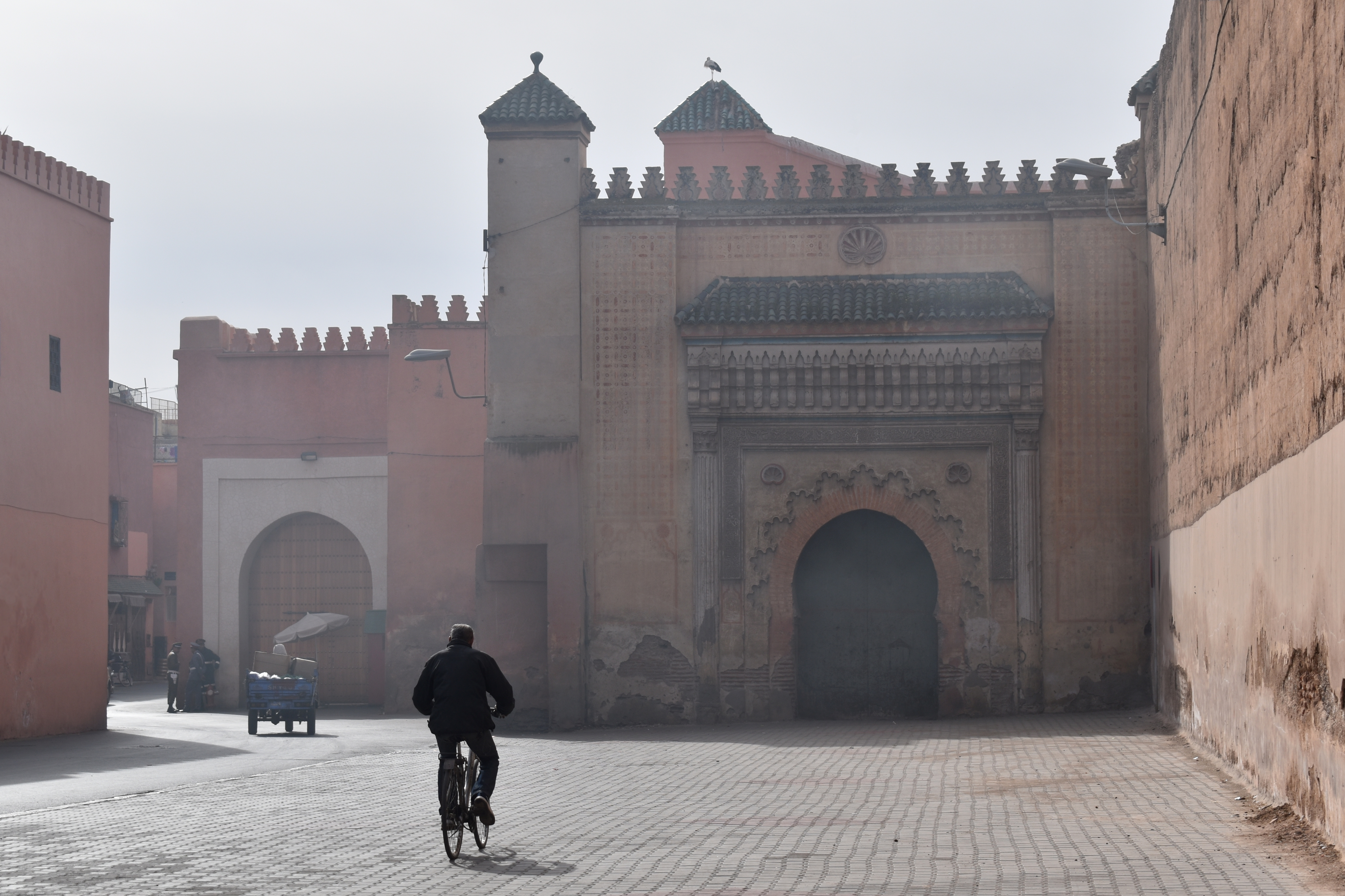 Marrakech, Medina, Kasbah